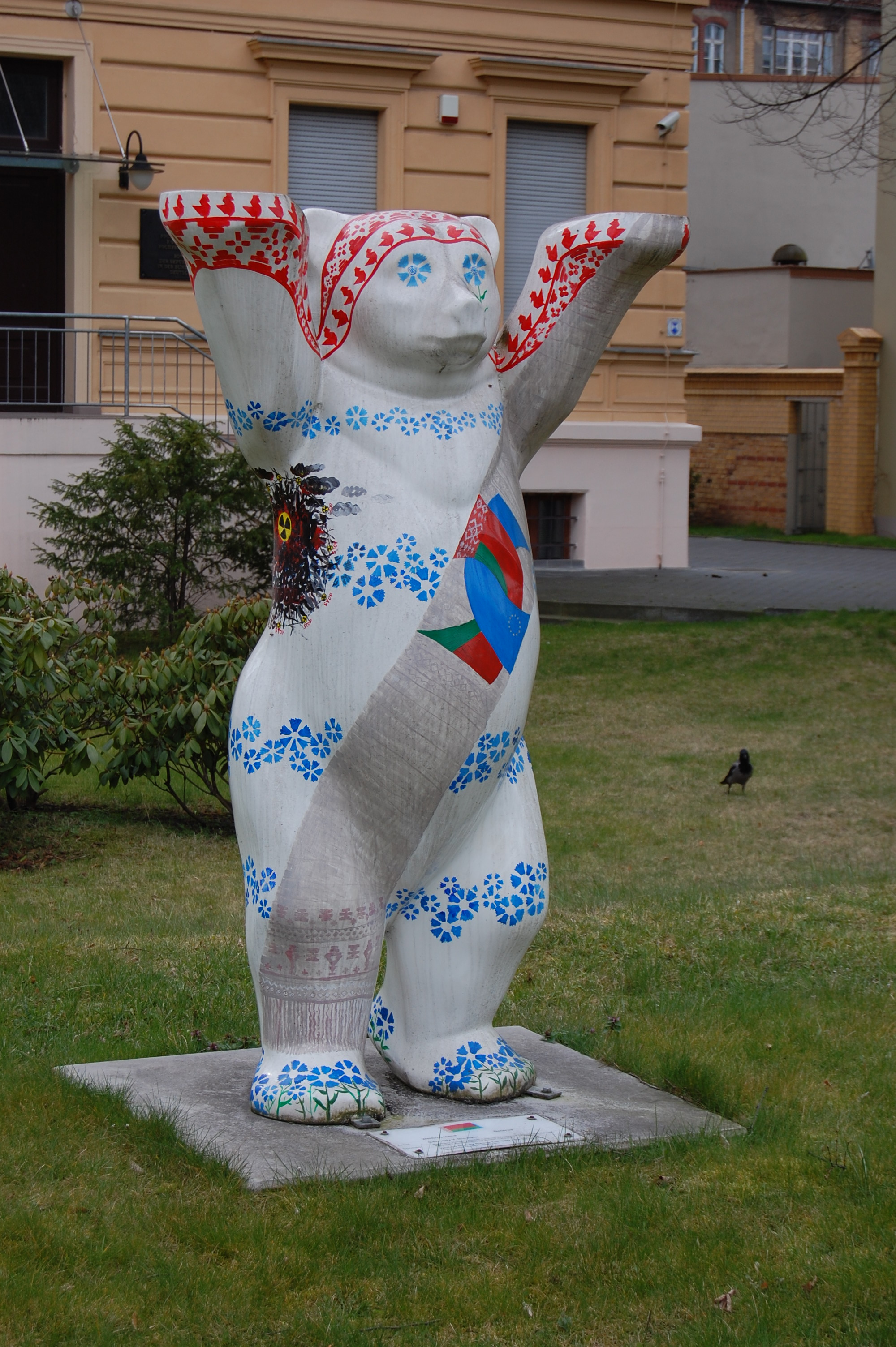 Embassy of Belarus in Berlin